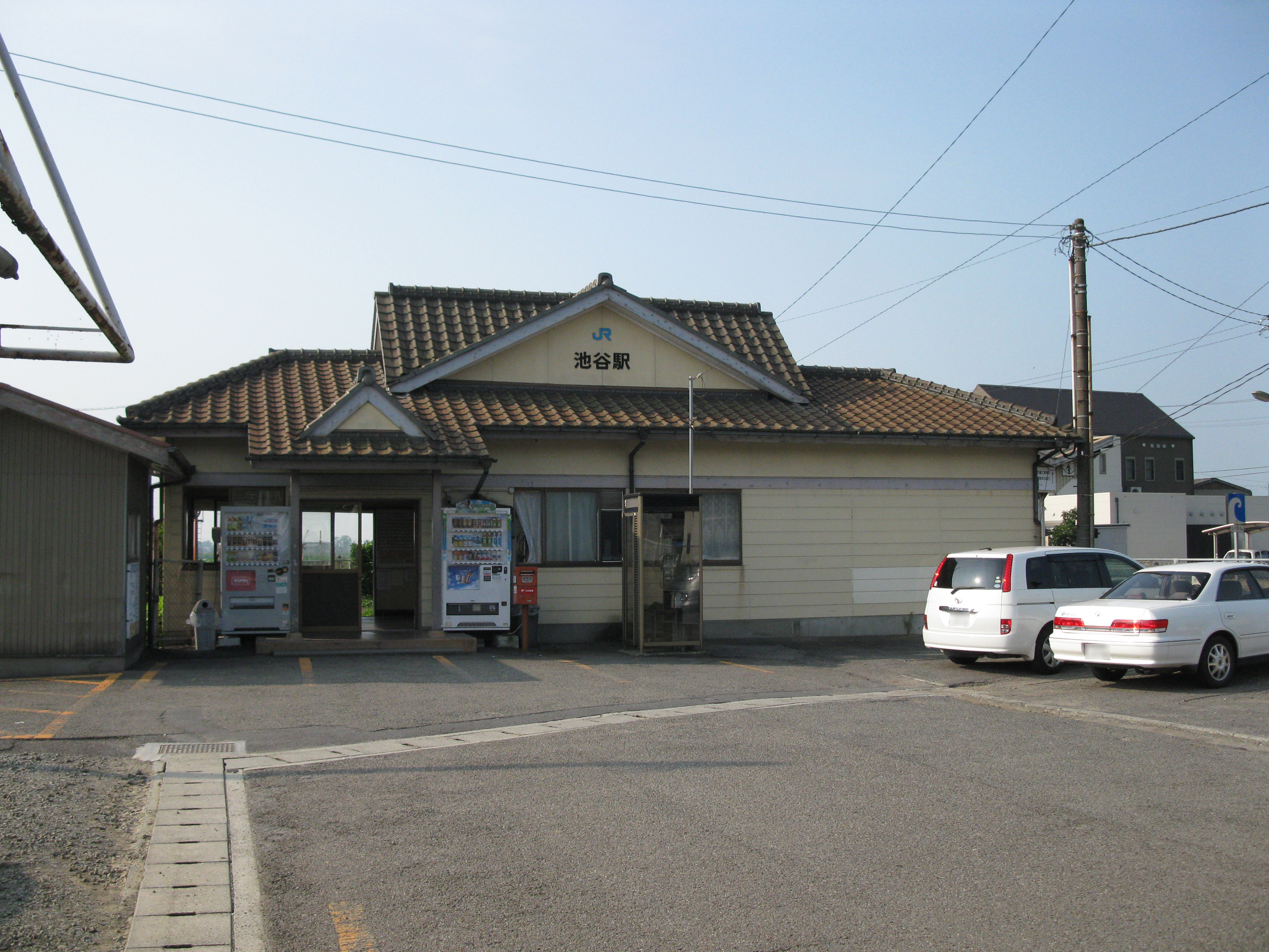 Ikenotani Station building (Shikoku Railway(JR Shikoku) Kōtoku Line, Naruto Line)